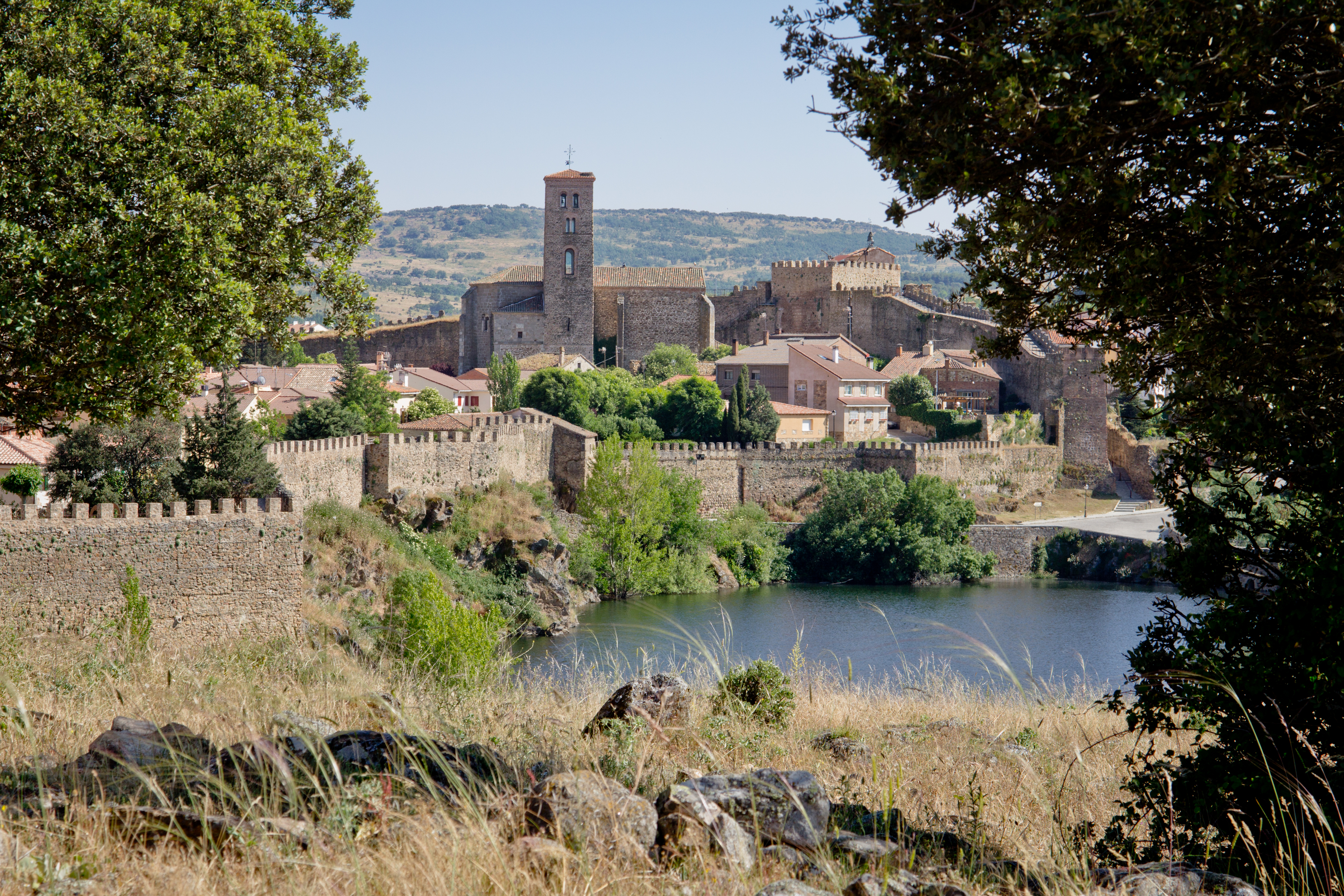 Buitrago del Lozoya, Community of Madrid, Spain.